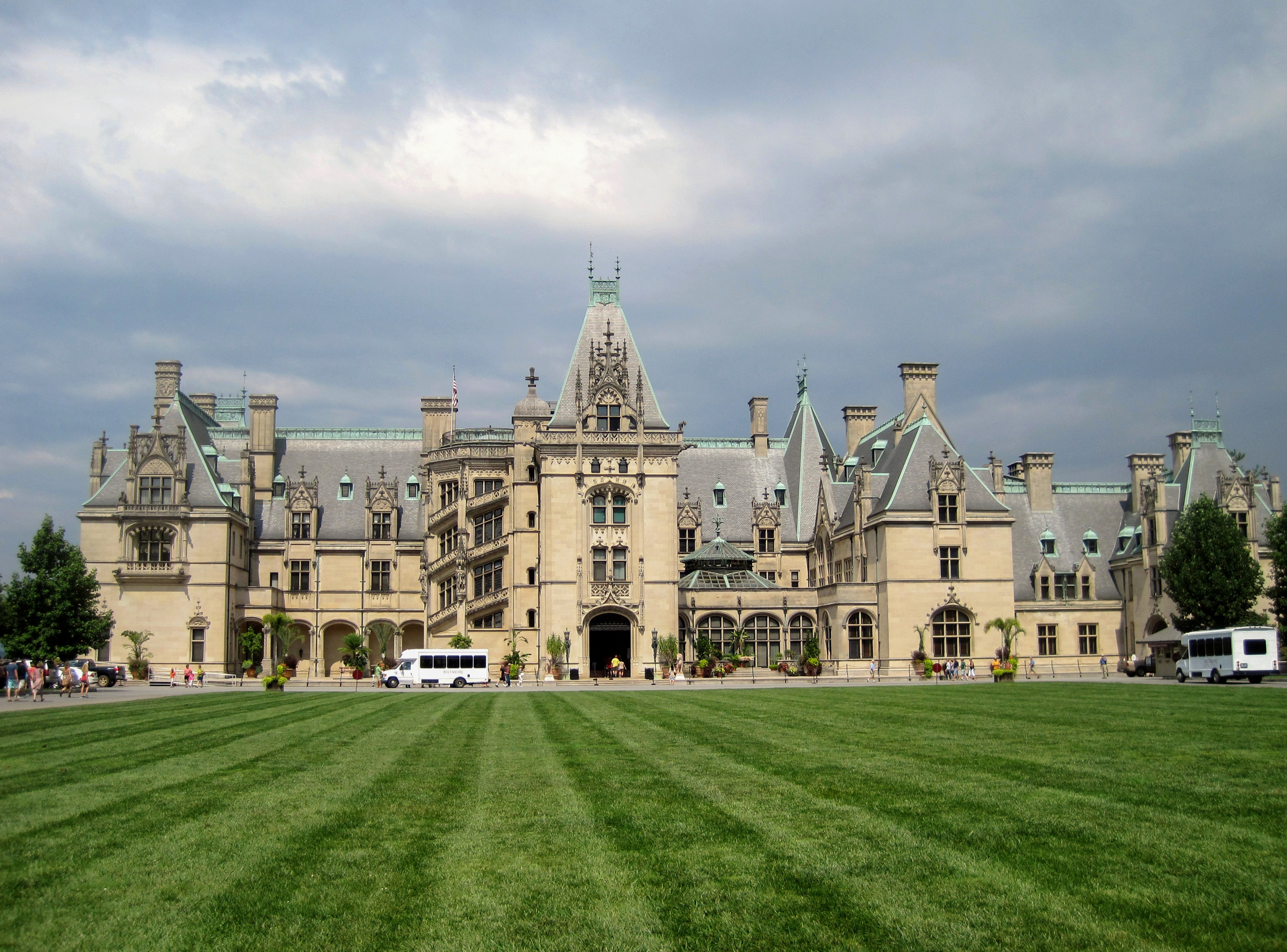 Biltmore House at Biltmore Estate, a national landmark district in Asheville, NC (1895). It is still the largest private residence in the United States and is still occupied by Vanderbilt descendents. George Washington Vanderbilt's estate once eclipsed 120,000 acres, inlcluding all of the mountains visible from the estate. Vanderbilt wanted a manor reflective of the large estates in Europe, particularly Waddesdon Manor in England, and the Château de Blois, Château de Chambord, and the Château de Chantilly in France.